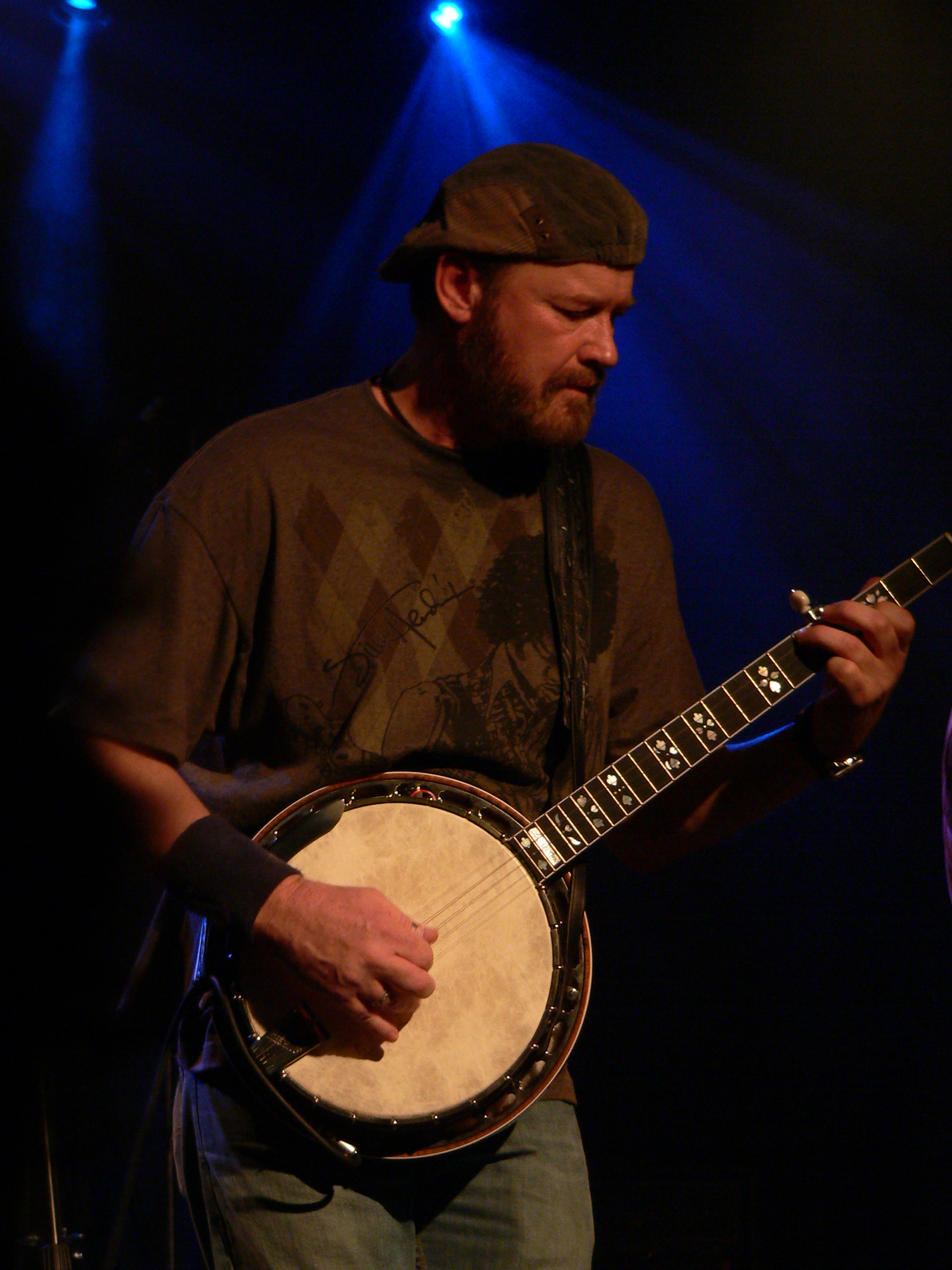 Don Wayne Reno playing a banjo with performing at a Hayseed Dixie gig at The Junction, Cambridge in March 2008